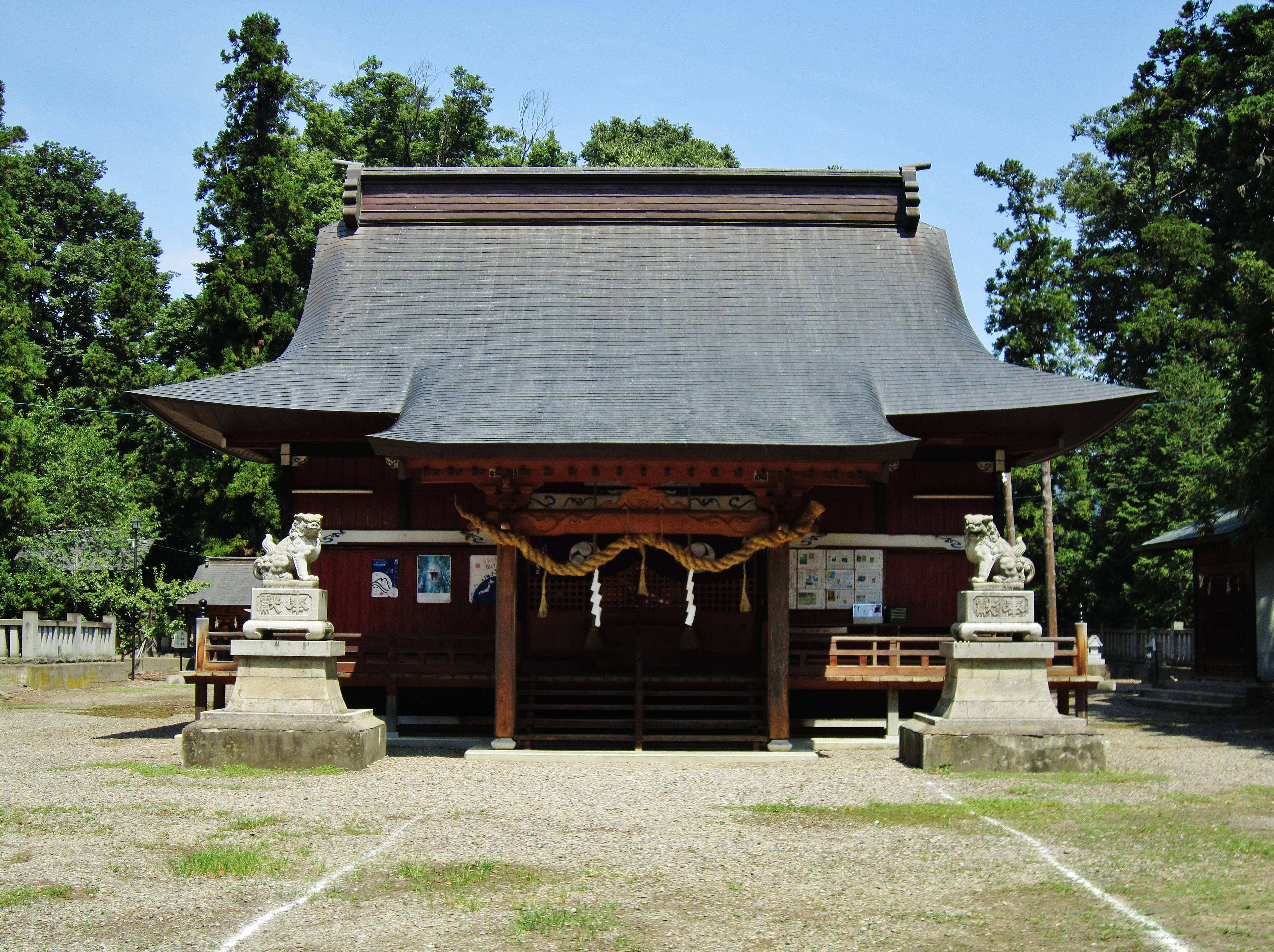 Sarashina-jinja.